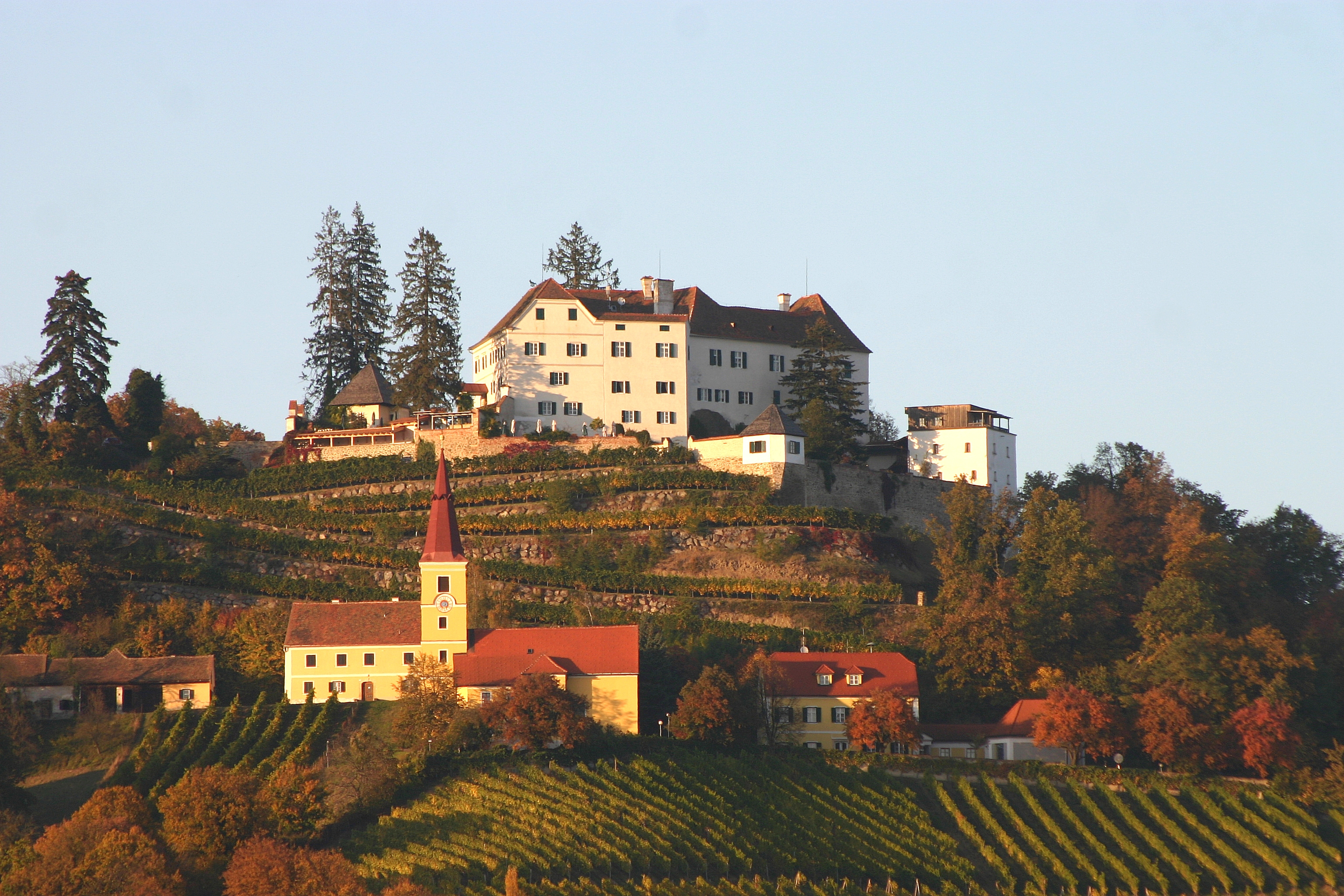 The village Kapfenstein with castle and church.